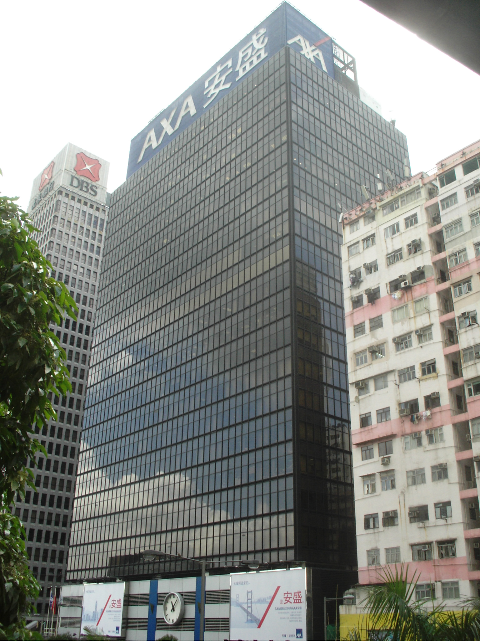 AXA Centre in Wan Chai